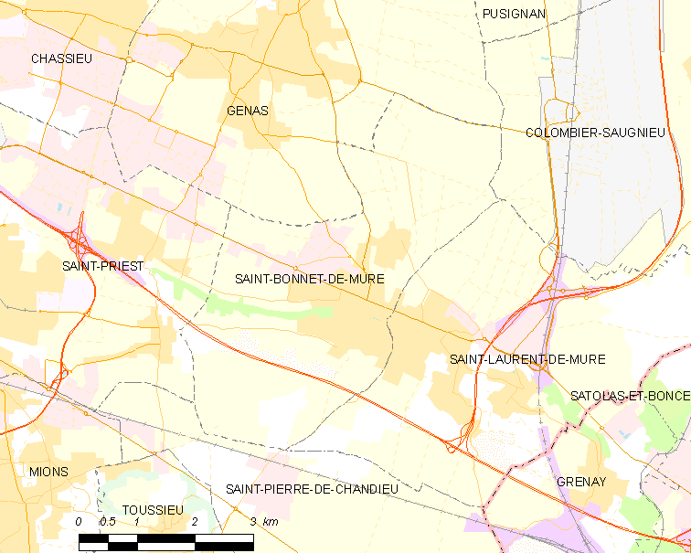 Map of French municipality